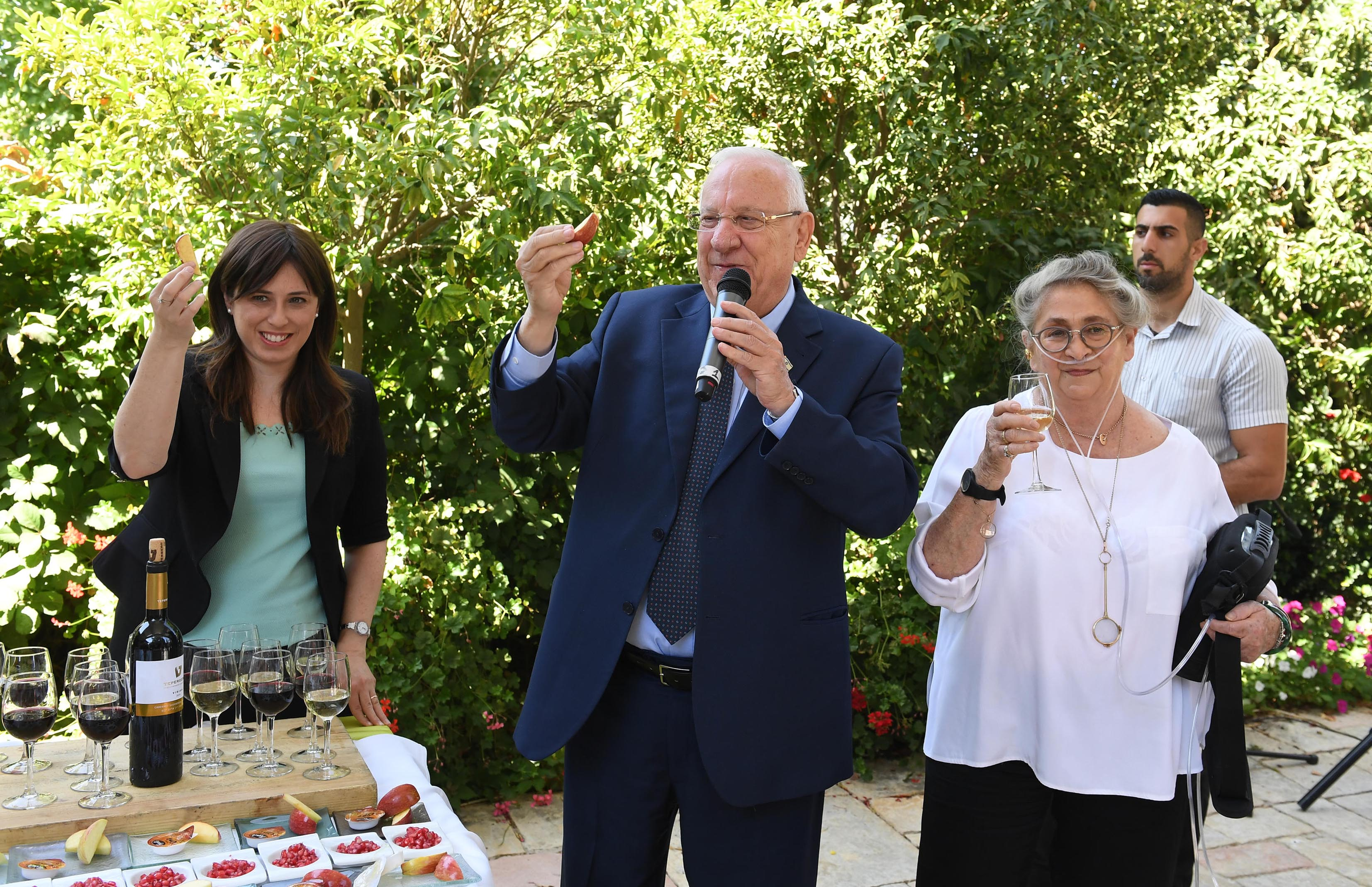 President of the State of Israel Reuven Rivlin and his wife at the President's Residence during a festive reception for the New Year with the diplomatic corps stationed in Israel. Monday, September 18, 2017. Photo Credit: Mark Neyman / GPO.